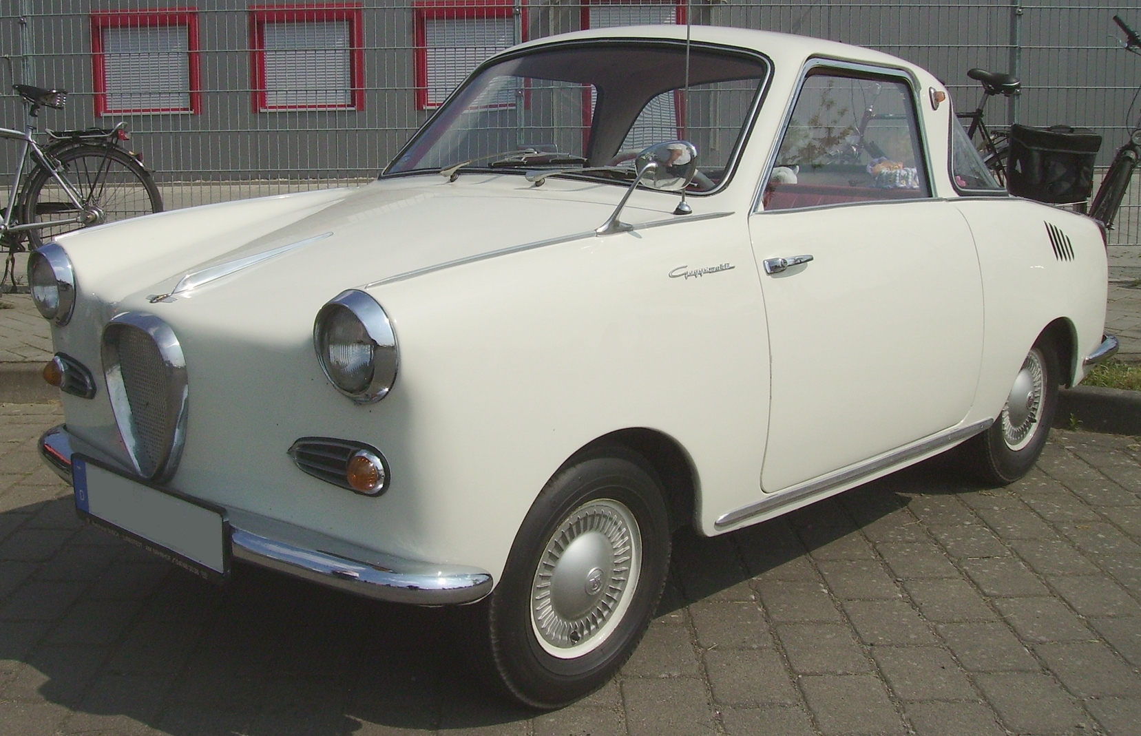 A Goggomobil 250 sports coupé